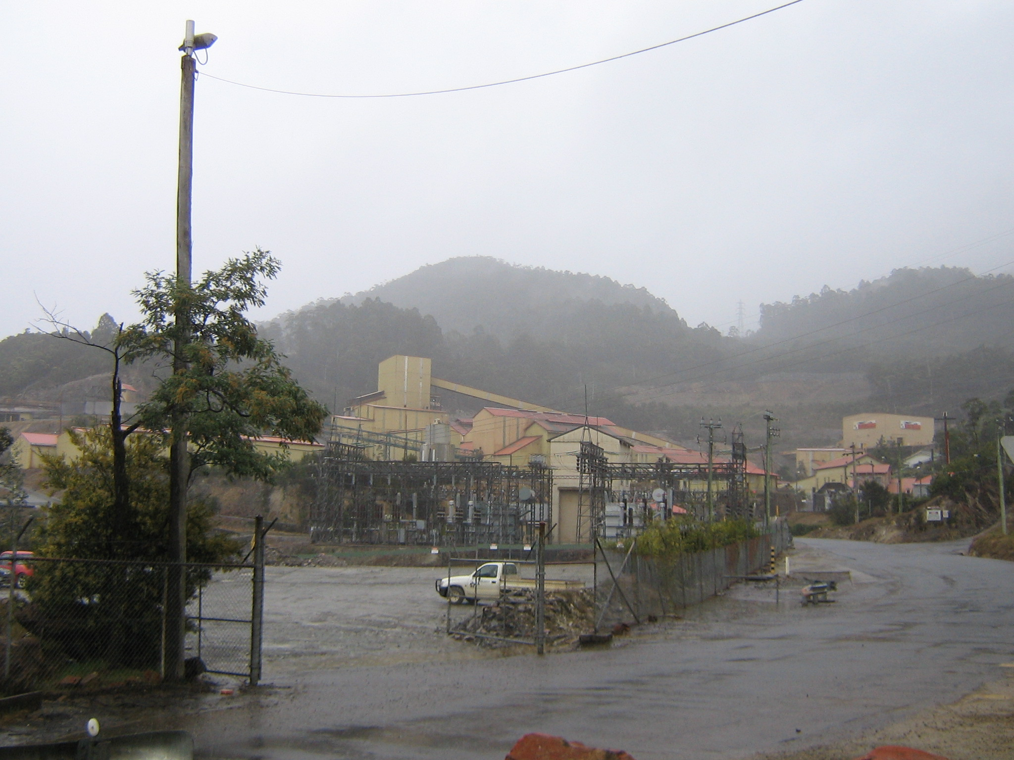 Above-ground workings at the Rosebery Mine owned by Zinifex Limited in Rosebery, Tasmania